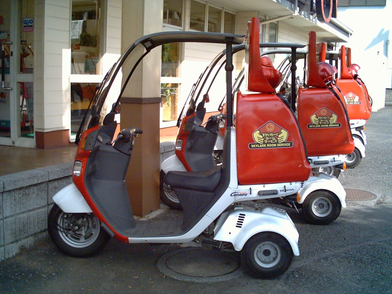 Skylark_Restaurant_Motorcycle tokorozawa City photography day, 2006.9.10. photography person Tokoroten